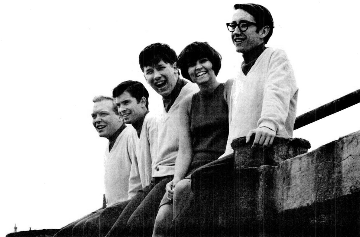 Trade ad for We Five's single "There's Stand The Door".To better adapt it to his respective Wikipedia article, the ad was cropped and cleaned in a graphics editing program before upload. The original can be viewed at the source below.